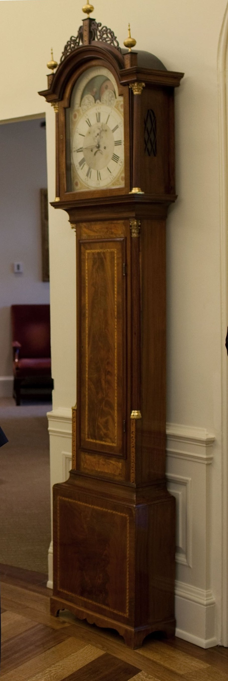 Oval Office tall-case clock (c. 1795-1805) by John Seymour. Cropped from the image below.